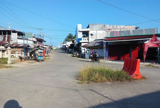 Main road of Tuapeijat, North Sipora, Mentawai Islands Regency.